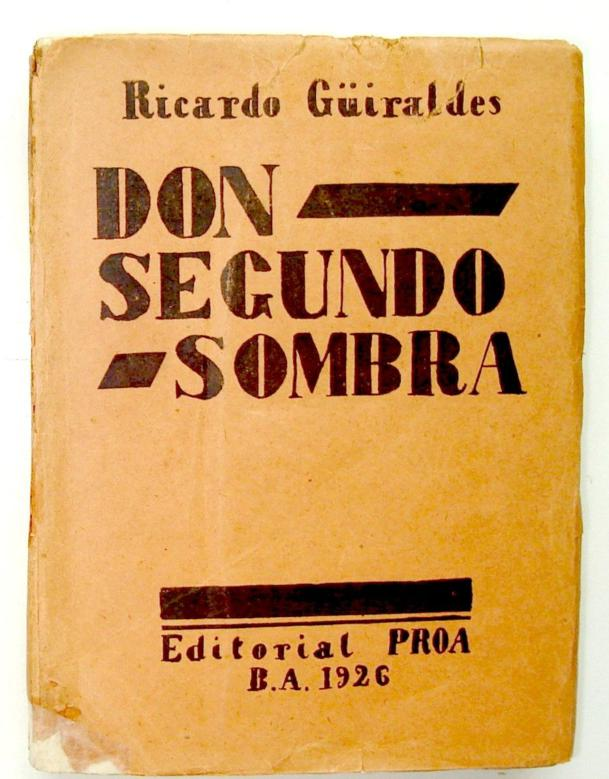 Cover of the first edition of Don Segundo Sombra, a classic Argentine gaucho novel. A copy of this book is currently exhibited at the Museo Gauchesco Ricardo Güiraldes in San Antonio de Areco, Buenos Aires Province.